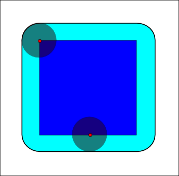 Author: Renato Keshet; Date: Jul 7th, 2008; Created in Inkscape.